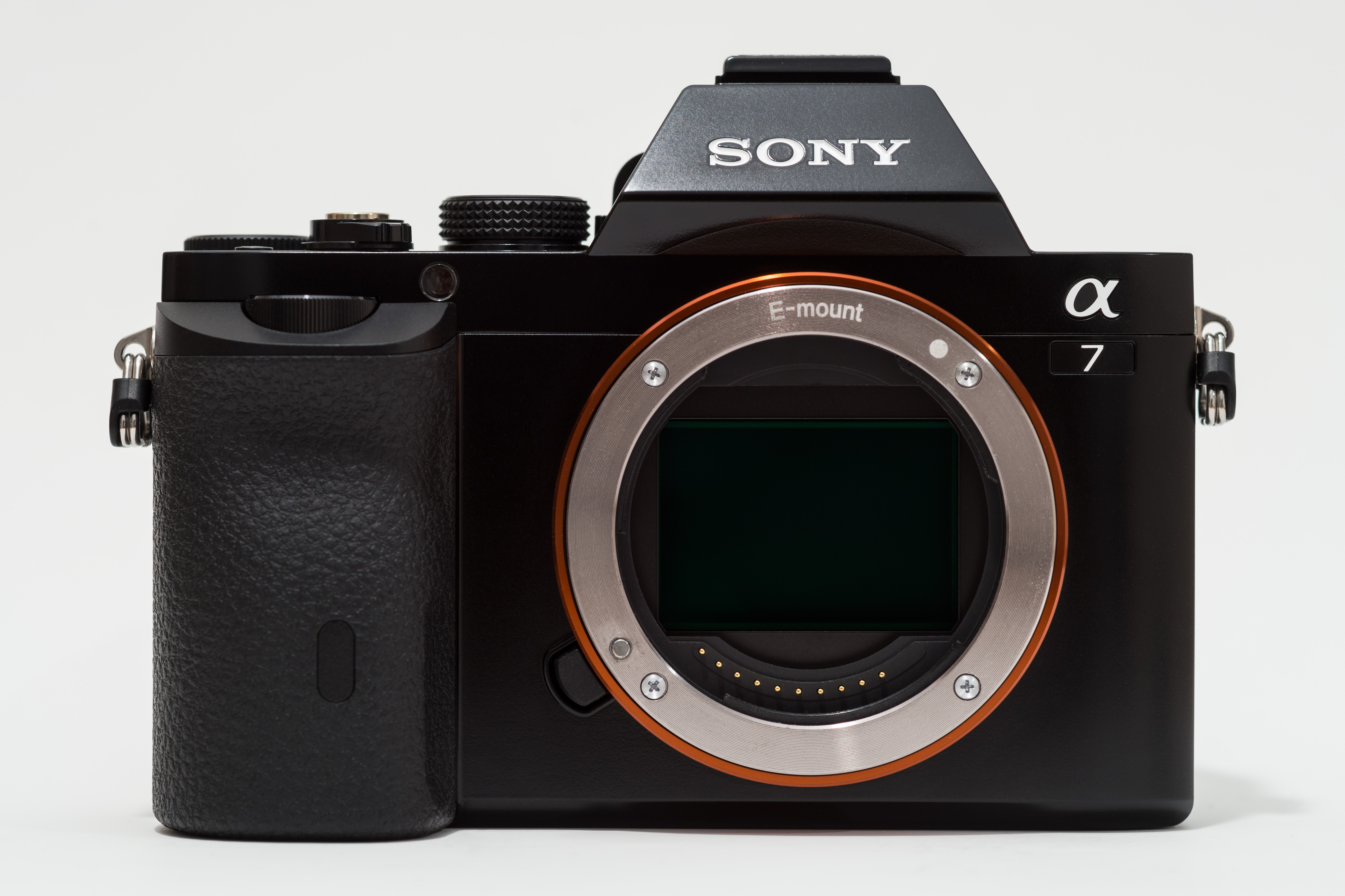 Sony Alpha ILCE-7 (A7) full-frame camera (mirrorless interchangeable-lens camera).